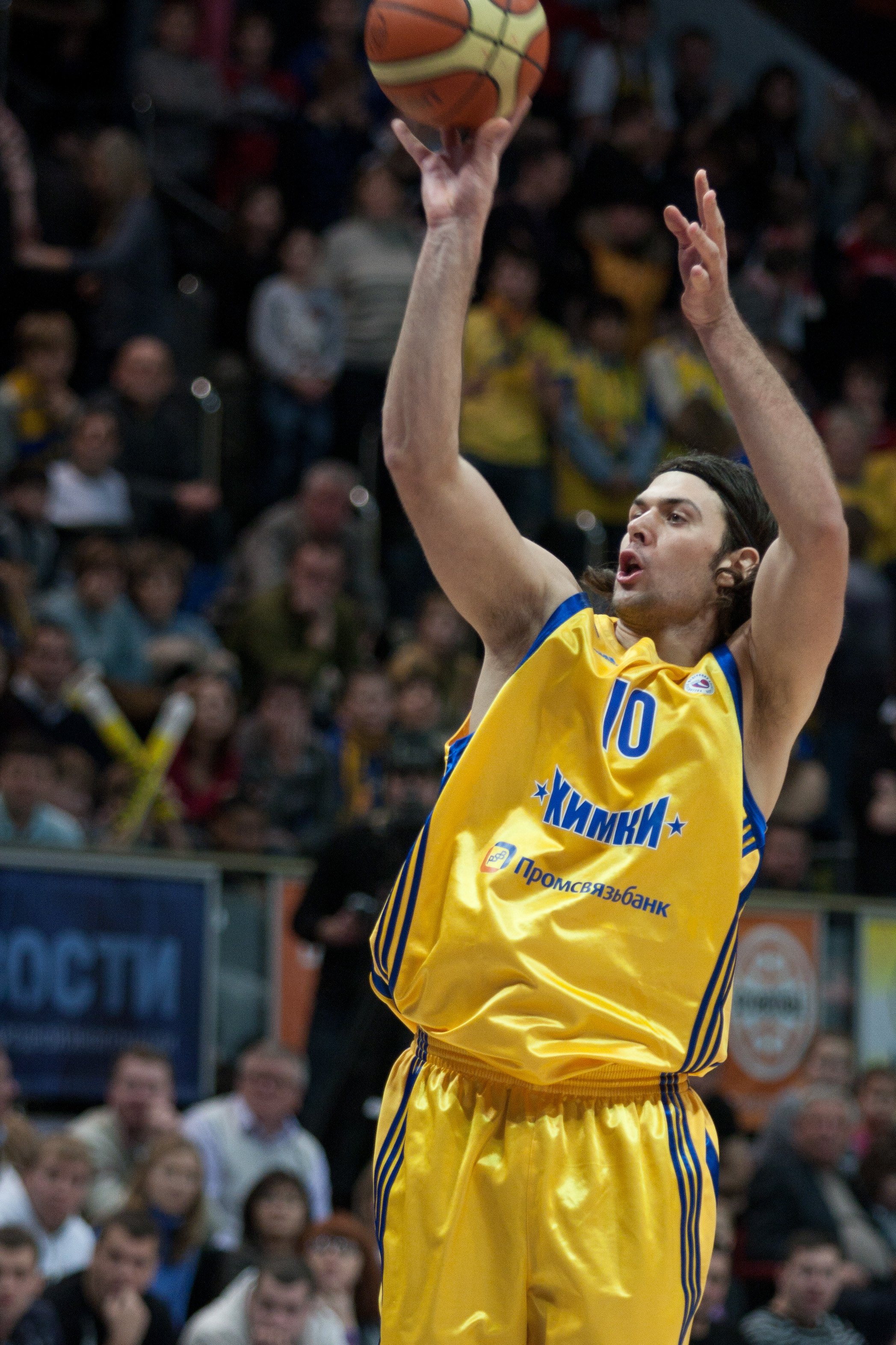 A BC Khimki power forward Kresimir Loncar